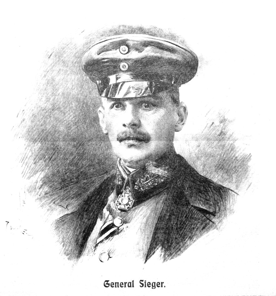 Portrait of Ludwig Sieger (1857-1952), German general in WWI.